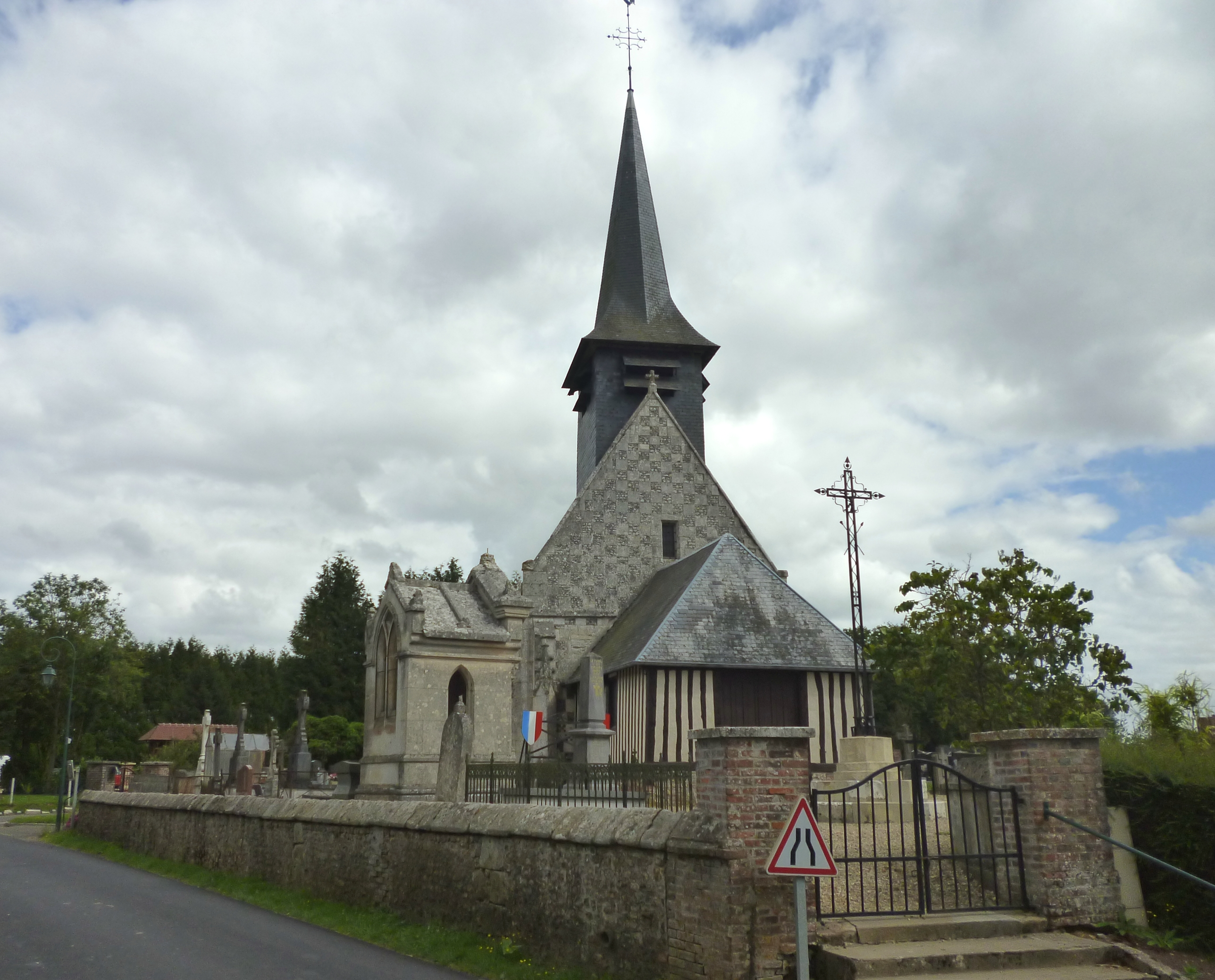 The church Sainte-Geneviève in Le Favril (Eure, France).